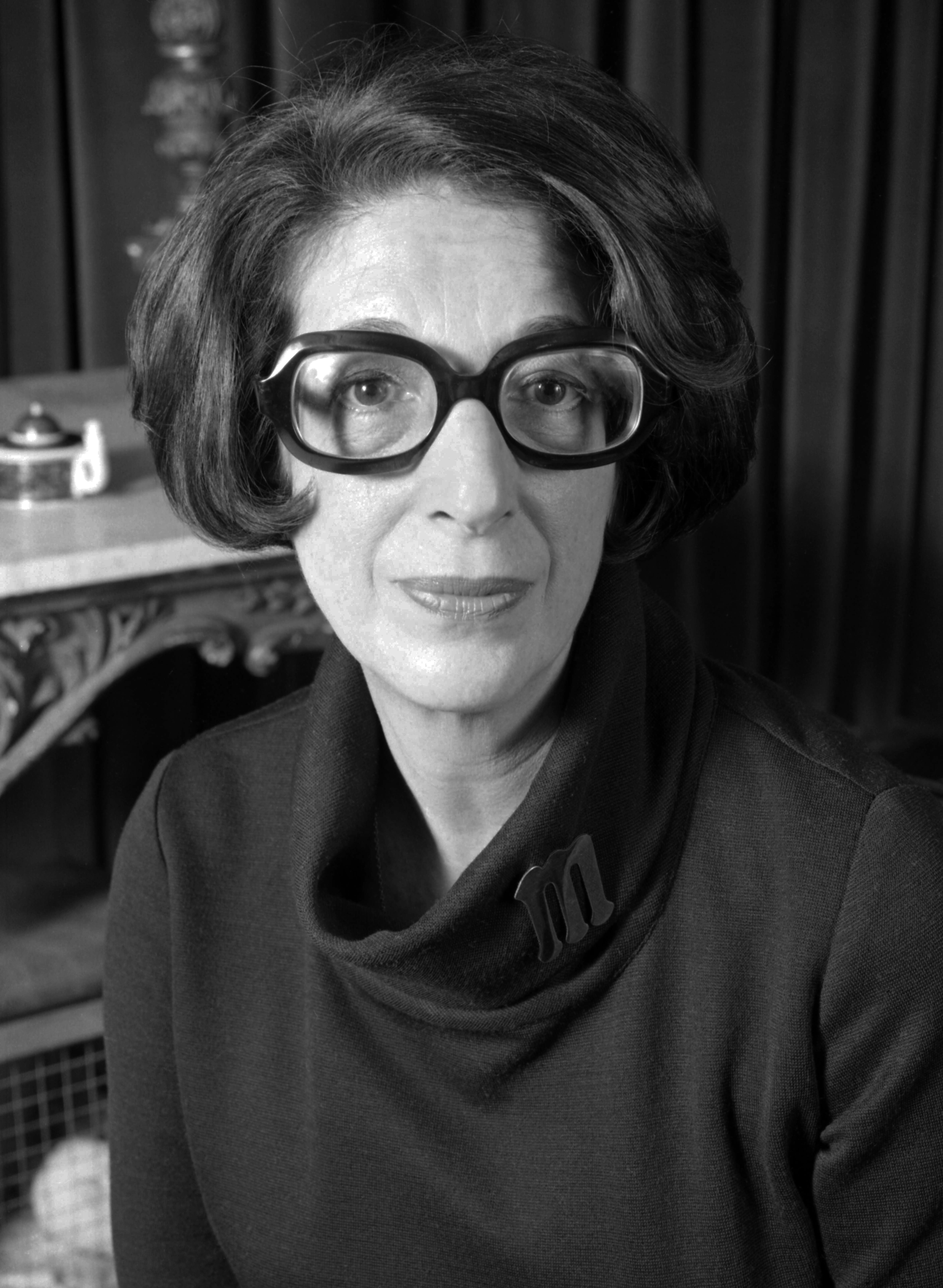 Majorie Proops